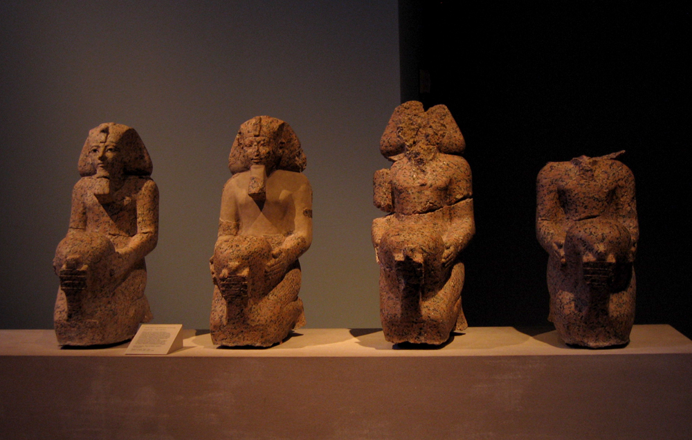 Four small kneeling statues of Hatshepsut, Eighteenth Dynasty of Egypt, c. 1503-1482 B.C. Red granite statues at the Metropolitan Museum of Art, New York City. Four of eight statues recovered at Deir el-Bahri, Thebes; inscriptions indicate that there were at least twelve originally. These represent Hatshepsut as a male king wearing the khat headdress, and holding a lustration vessel that has the hieroglyph for "stability." The museum normally has five of these figures on display; one was temporarily removed the day this picture was taken.